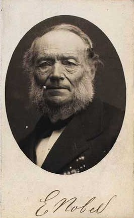 Danish businessman and politician Emilius Ferdinand Nobel (1810-1892). Lithograph based on a photo from 1861 (?)